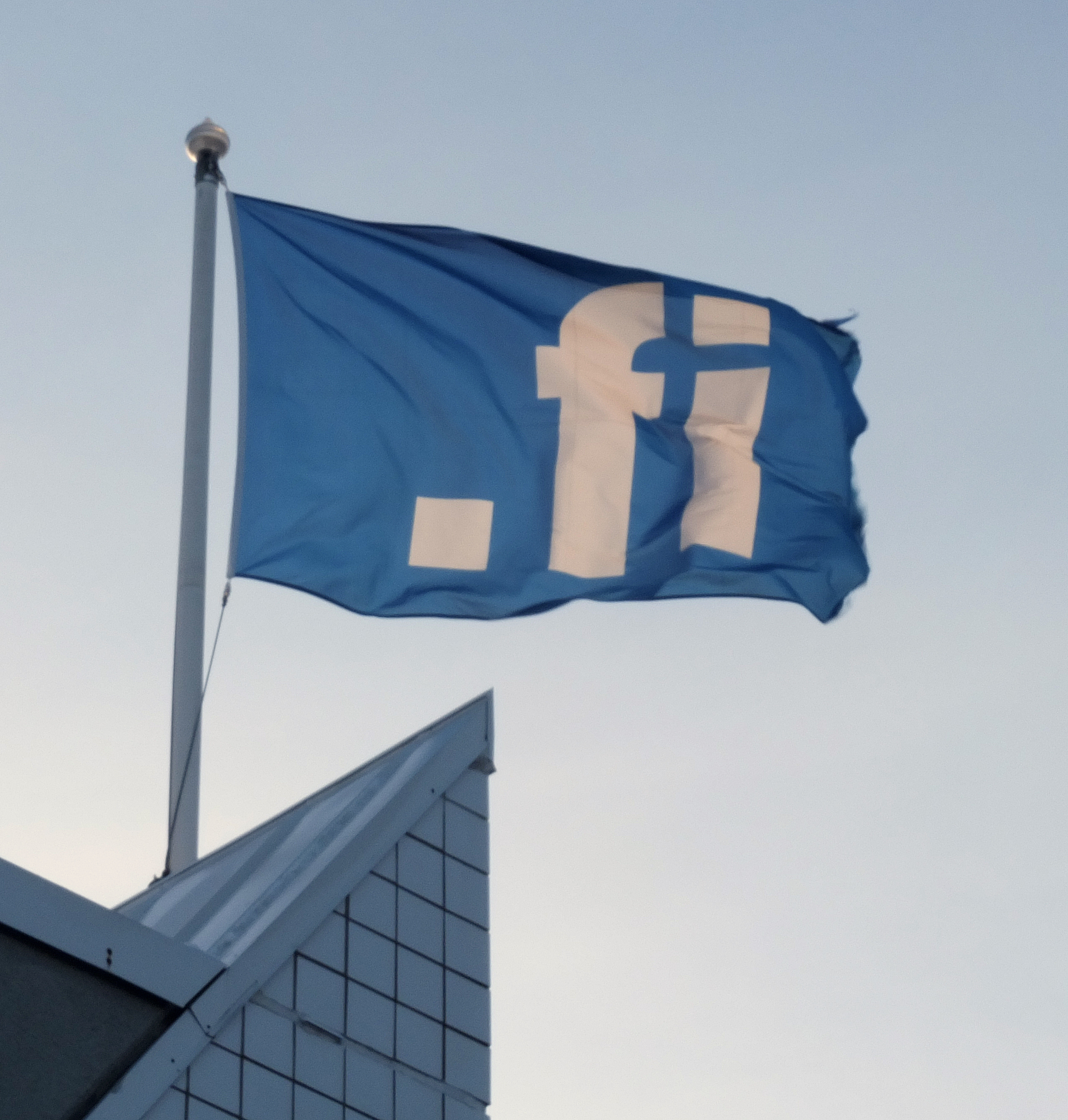 Finland's internet domain code .fi in a blue-and-white flag.